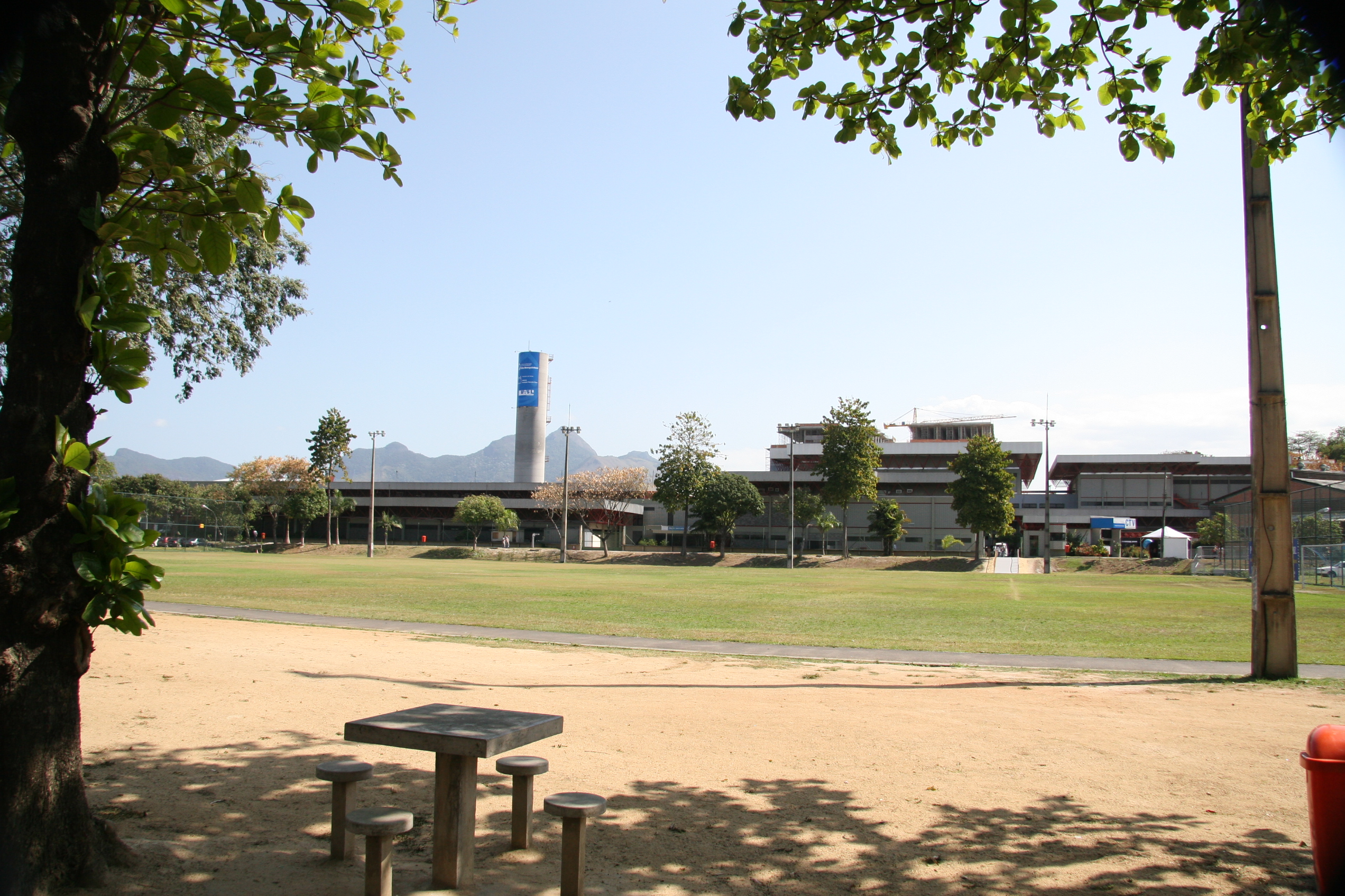 Fundação Oswaldo Cruz - Fiocruz - CTV - Centro de Tecnologia de Vacinas. The largest research center for biological development in Latin America